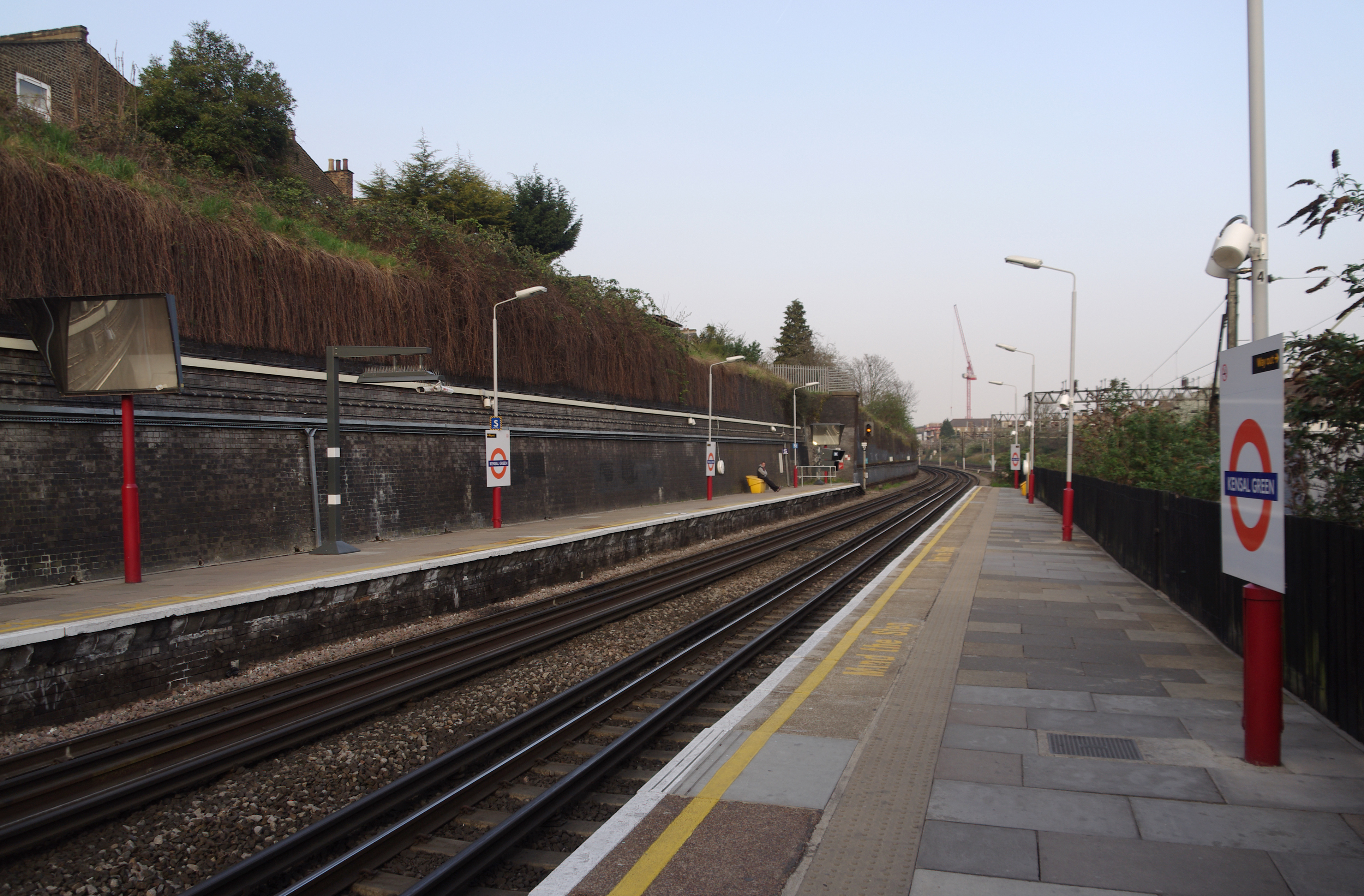 Kensal Green railway station on the Bakerloo and Watford DC lines, looking south.